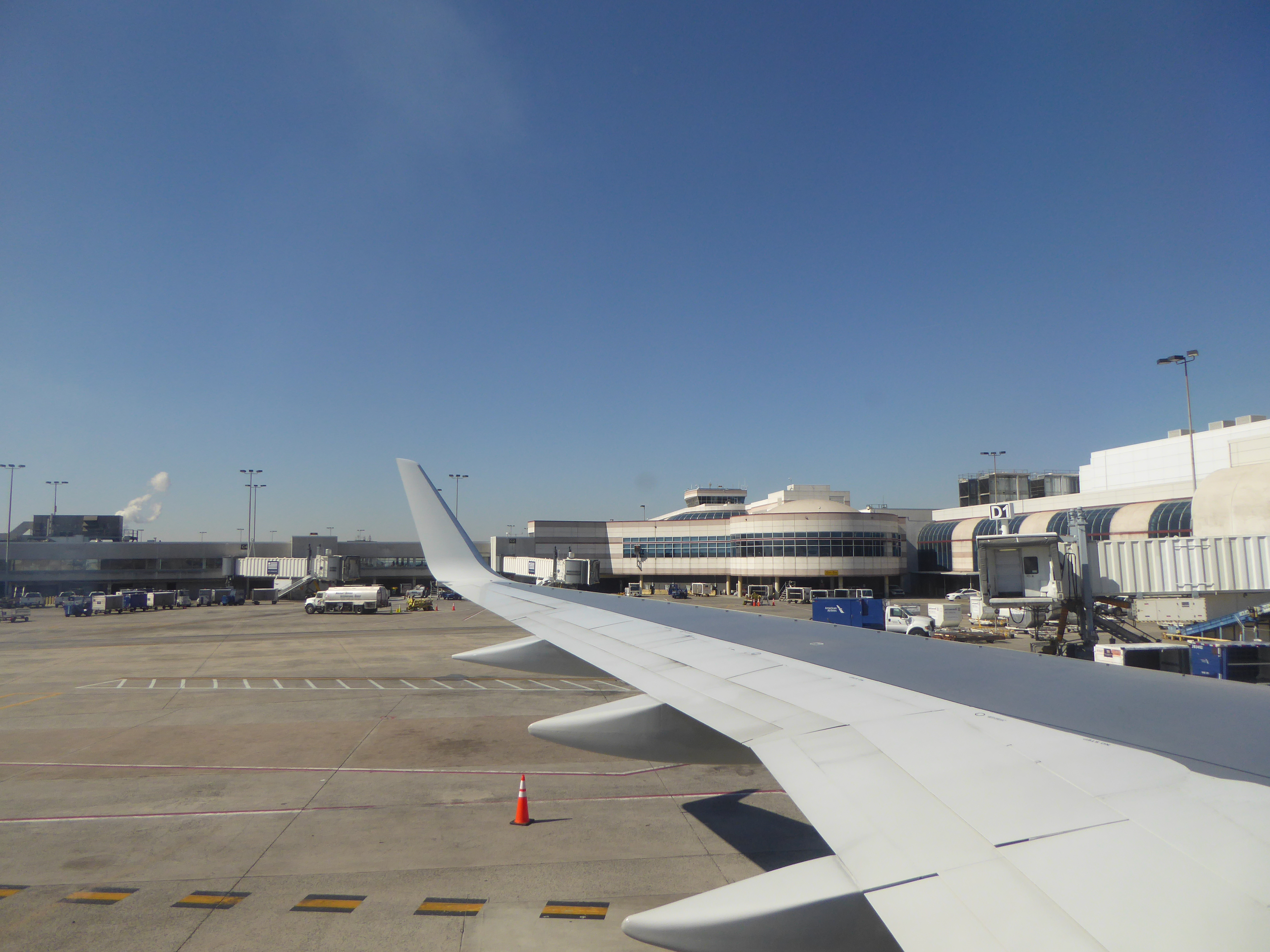 outside